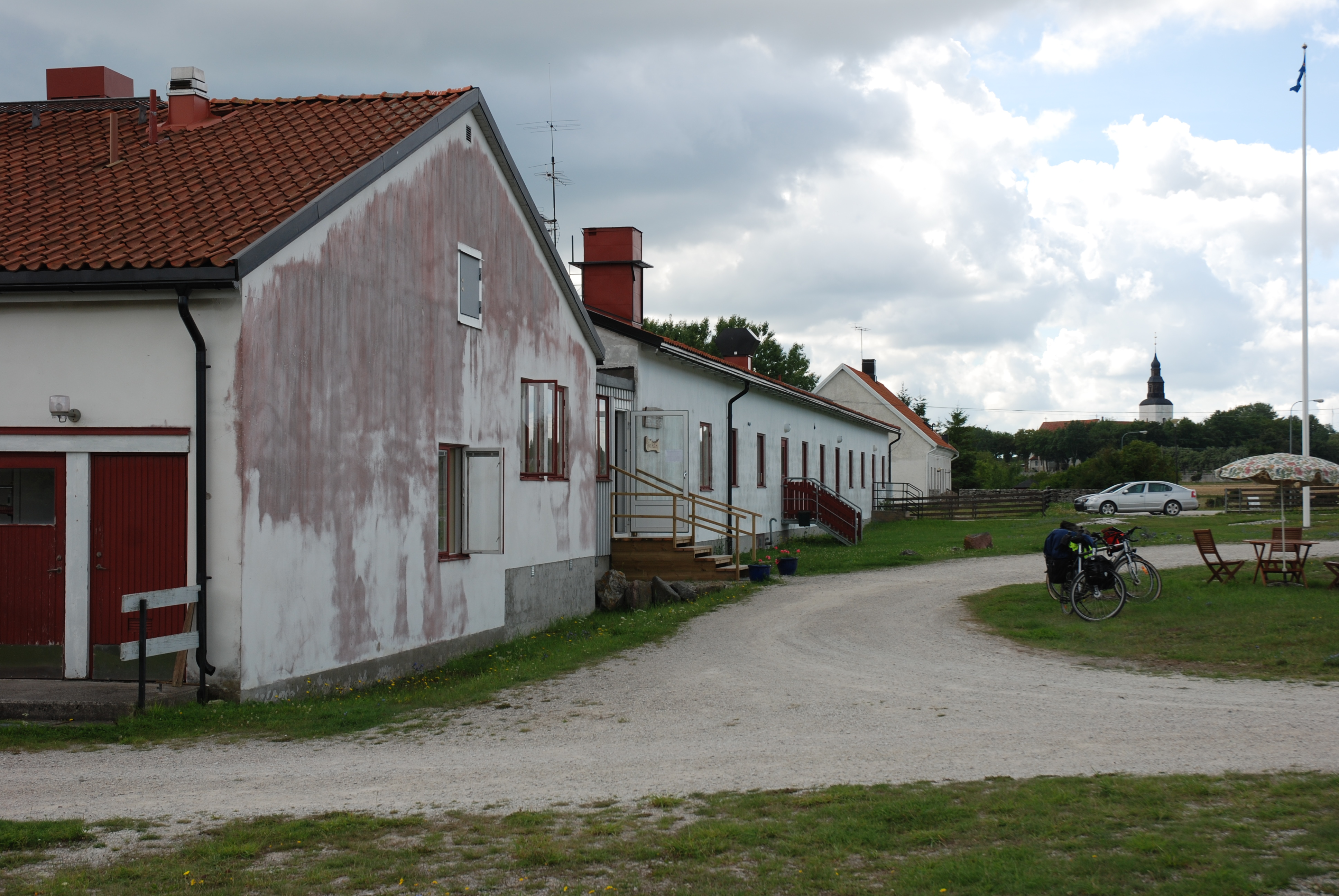 Fårö School, used as an elementary school building up to Jone, 2009. Now used as Bergmancenter på Fårö, a cultural institution centered upun film director Ingmar Bergman. On the right, close to the newe school building, is Gazeliska huset, which is the original Fårö school building from the 1820s. At a distance is Fårö church.